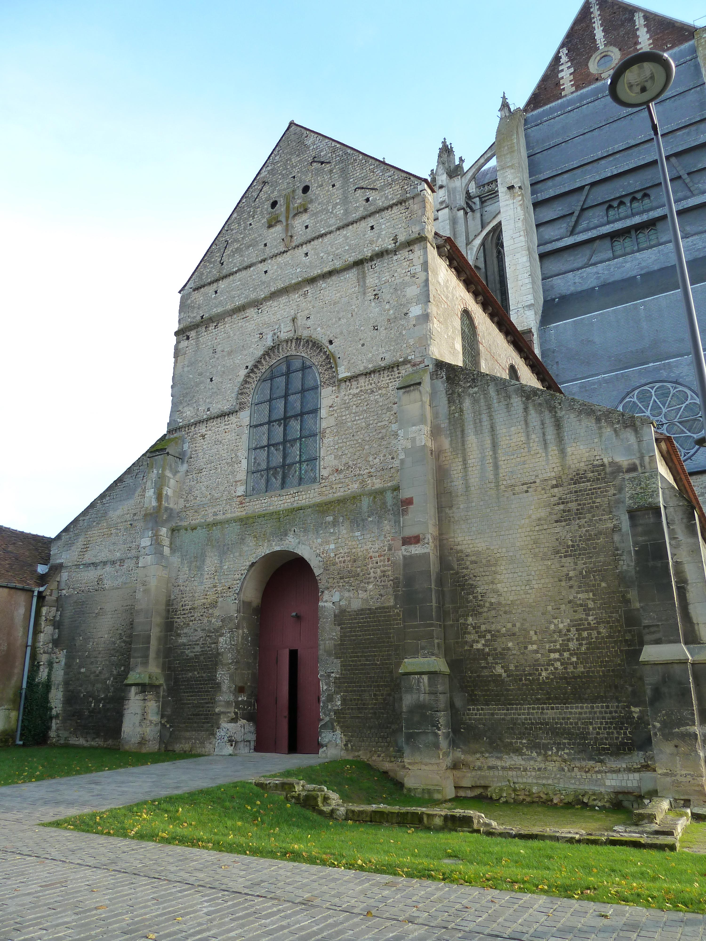 Beauvais (département of Oise, Picardie région, France). Church of Notre-Dame de la Basse Oeuvre (Xth century), former cathedral of Beauvais, partially destroyed for the construction of the Gothic cathedral, which remained unfinished. West facade.